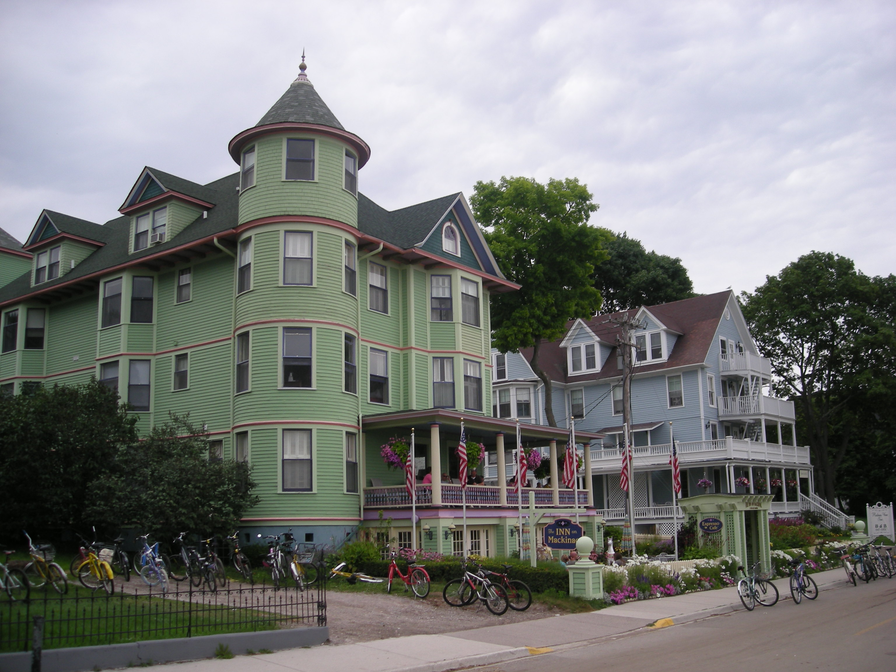 Hotels on Mackinac Island, Michigan (United States).